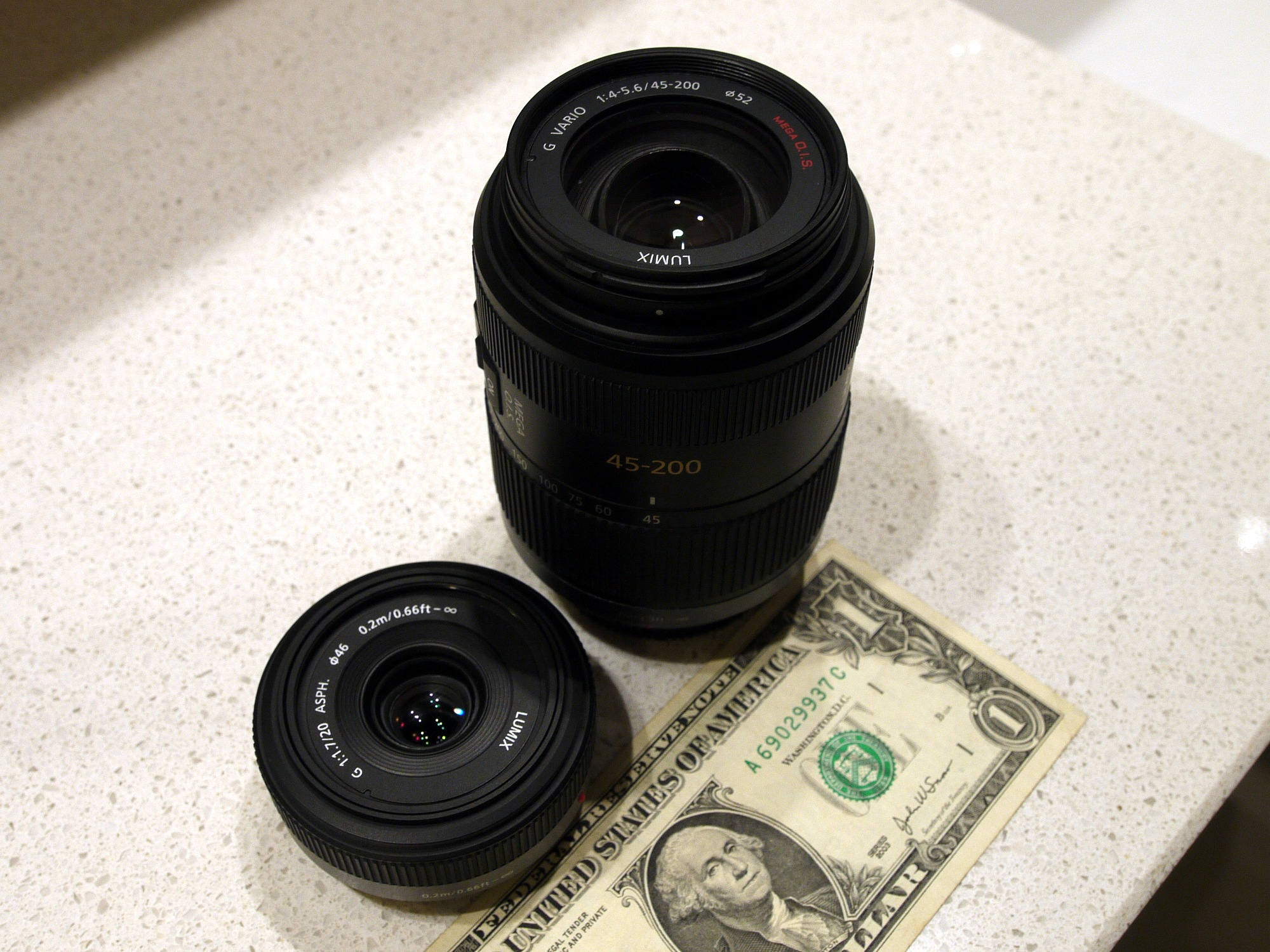 Panasonic Lumix G 20mm f/1.7 and 45-200mm f/4.0-5.6 lenses